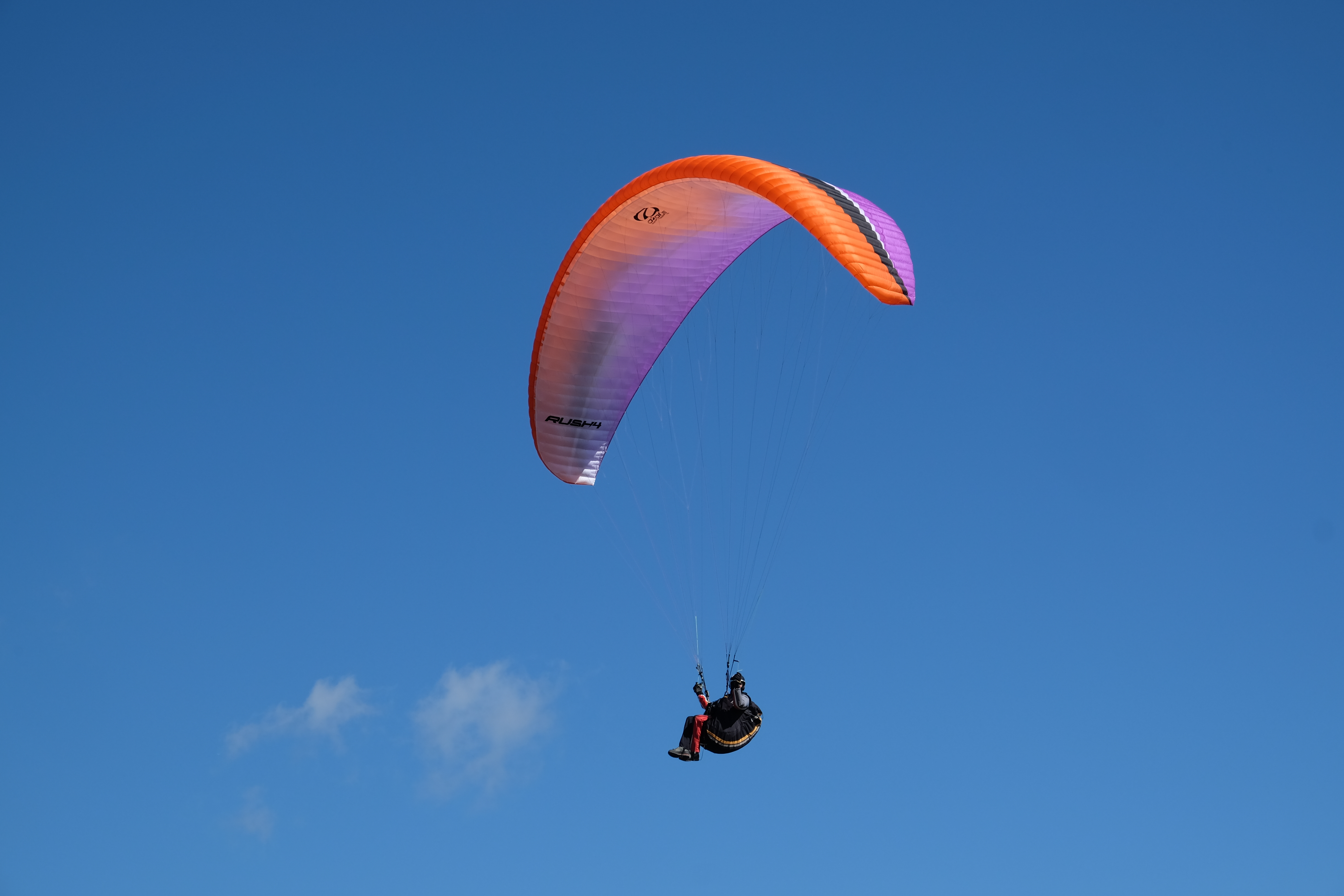 Paragliding over the cliffs near Hunstanton, Norfolk